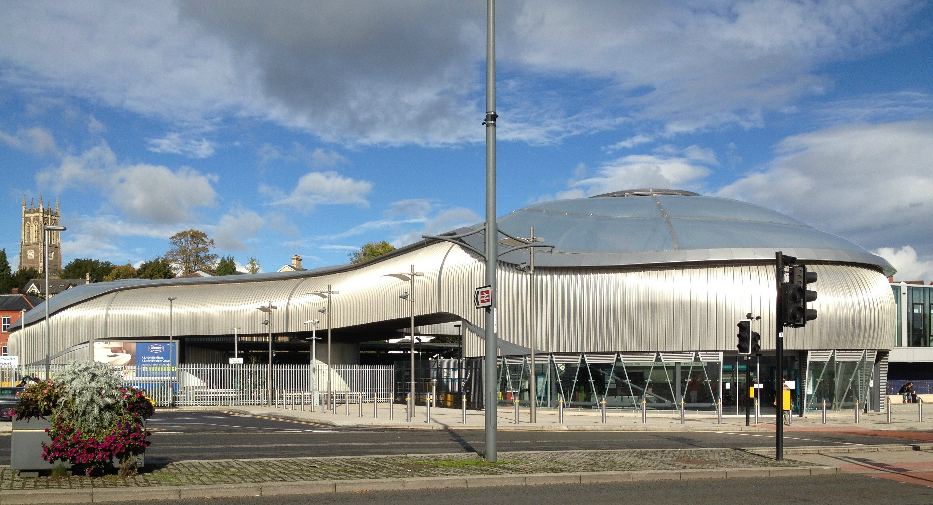 Exterior view of the new concourse at Newport Railway Station